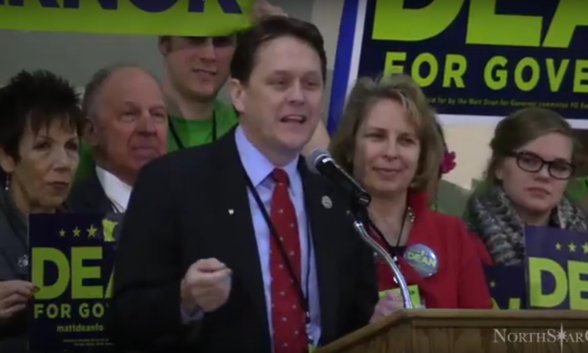 MNGOP Gubernatorial Candidate 2018 speech at State Central meeting December 2, 2017